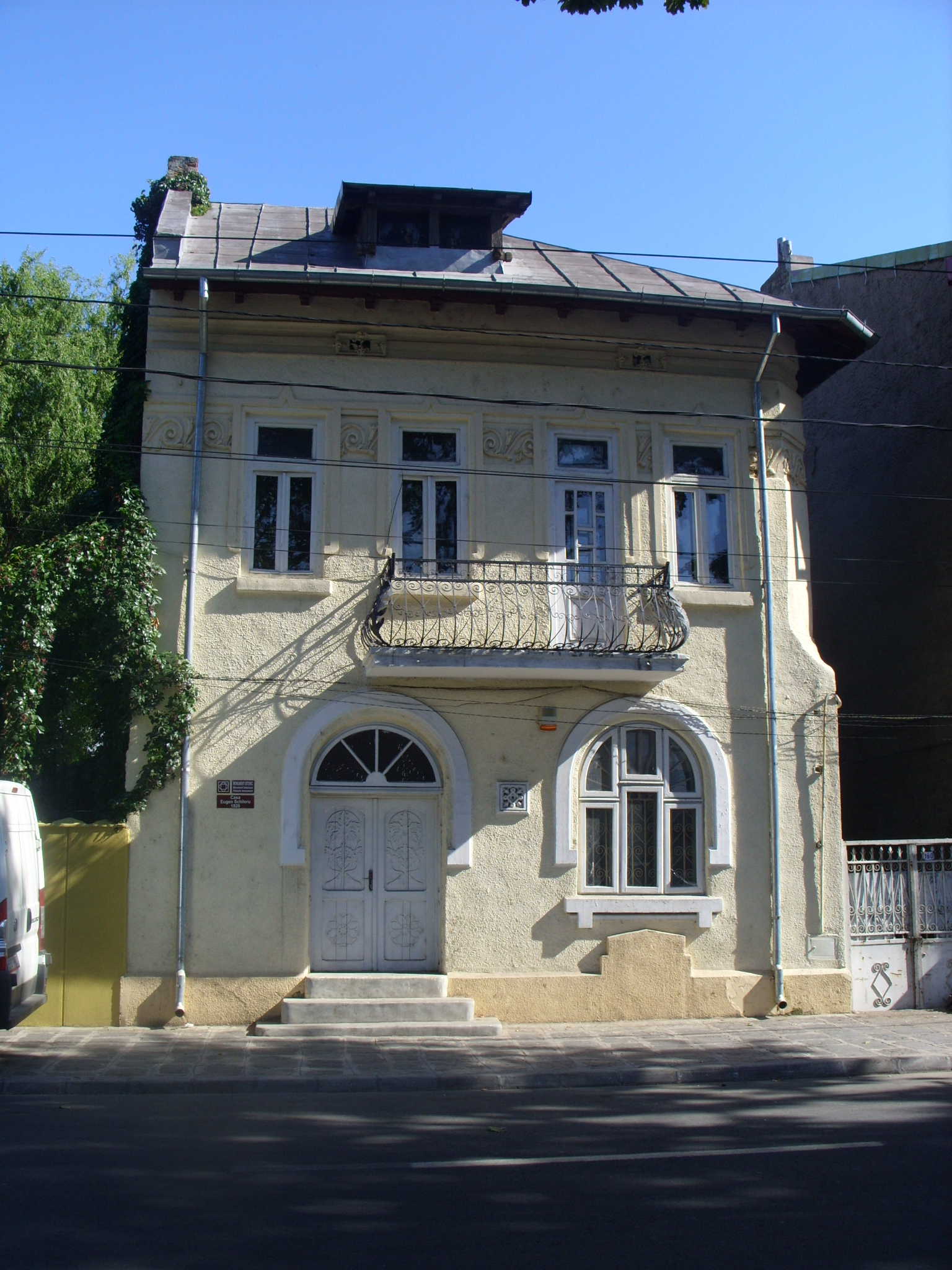 Eugen Schileru House